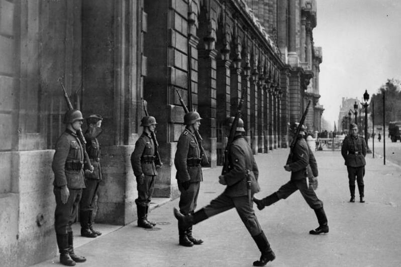 Change of guard at hotel Crillon place de la Concorde.